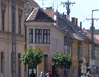 Győr Kossuth utcai részlet